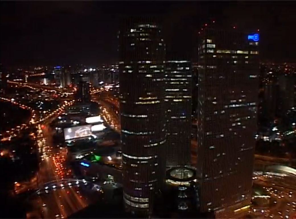 Azrieli Center and more buildings during Earth Hour 2010